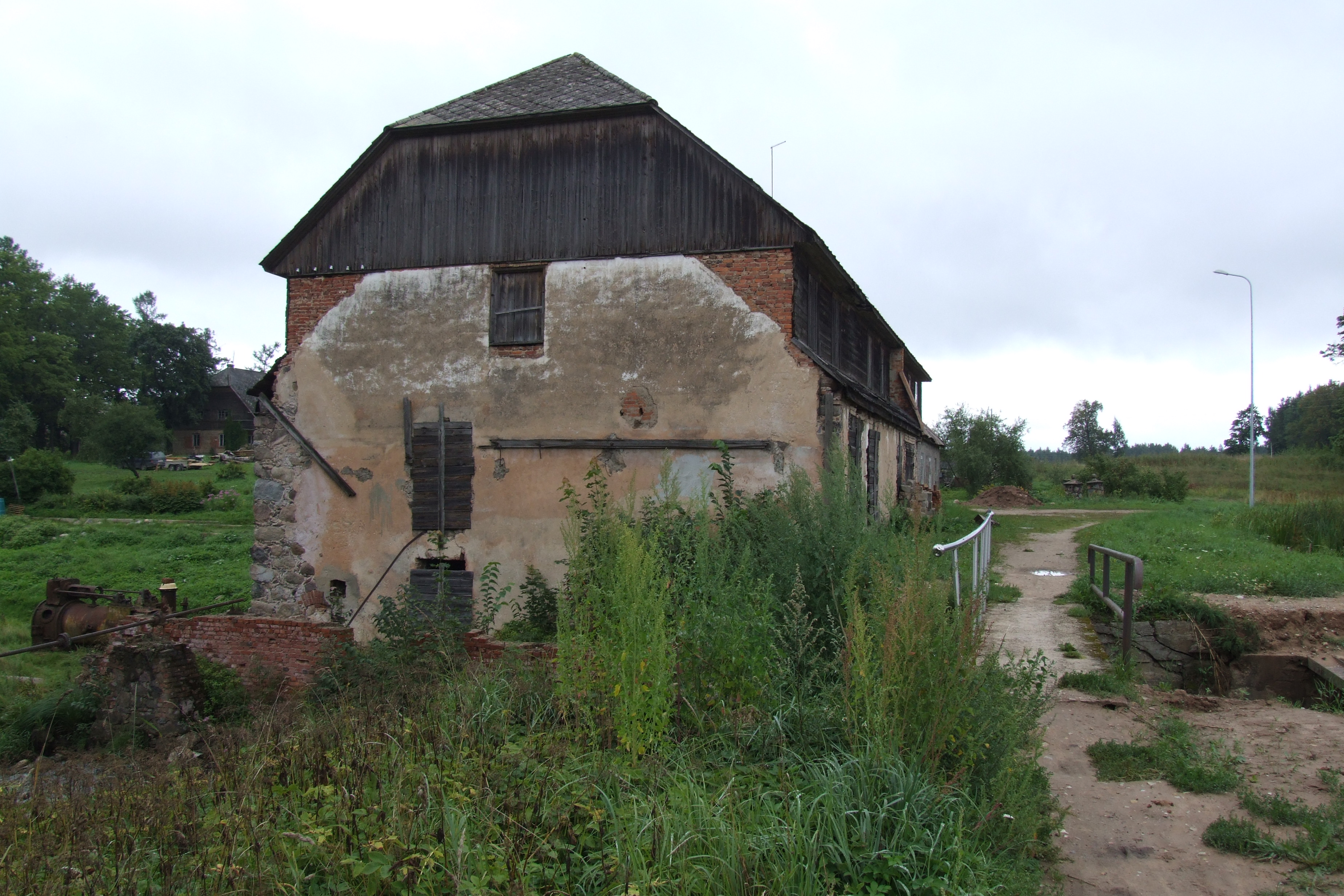 Ungurpils watermill